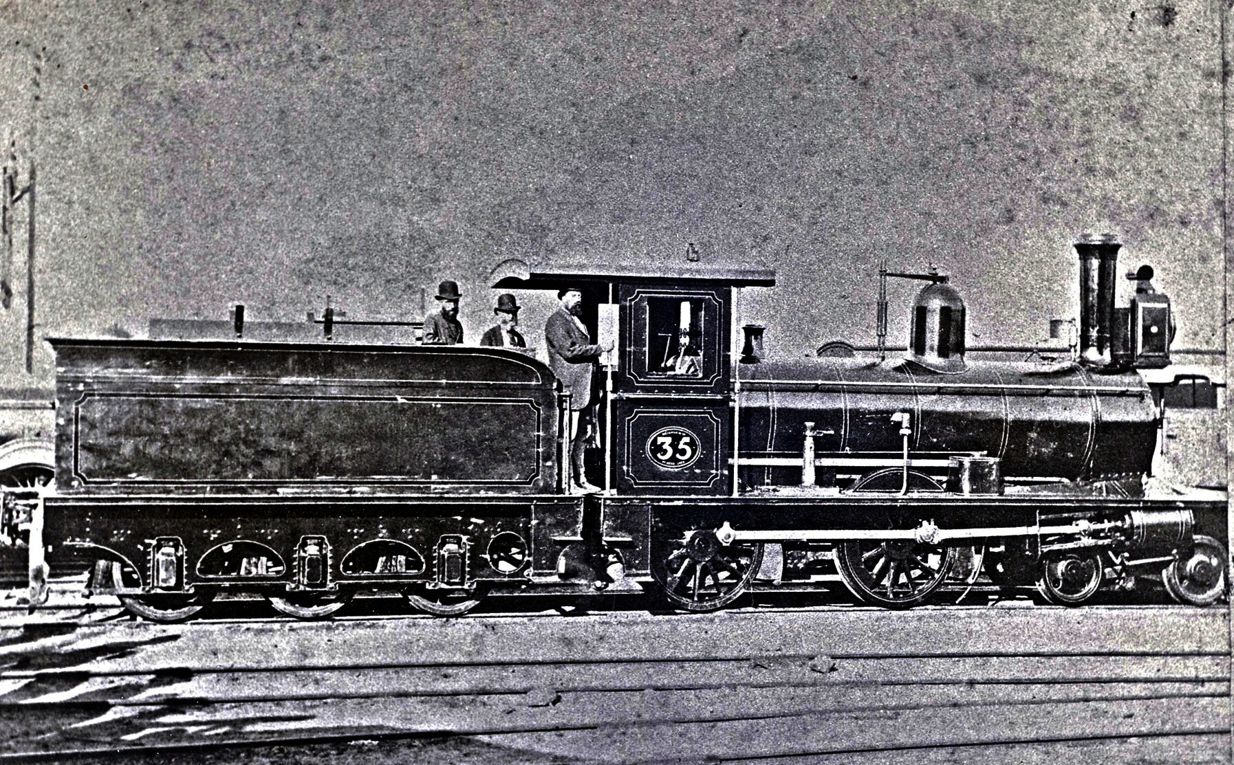 Cape Government Railways 1st Class 4-4-0 no. 35 (1878-1880 group) CGR officials on the locomotive, from left: E.A.Goodwin (Workshop Foreman), Michael Stephens (Locomotive Superintendent), McNamara (Steamshed Foreman)